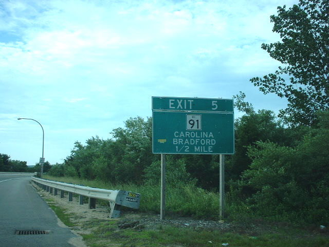 RI 78 at interchange with RI 91 sign in Westerly, RI